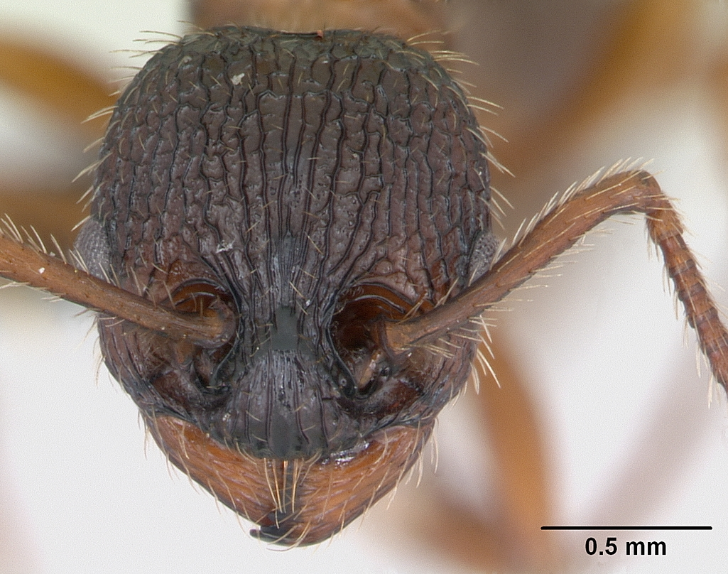 Head view of ant Myrmica schencki specimen casent0172731.